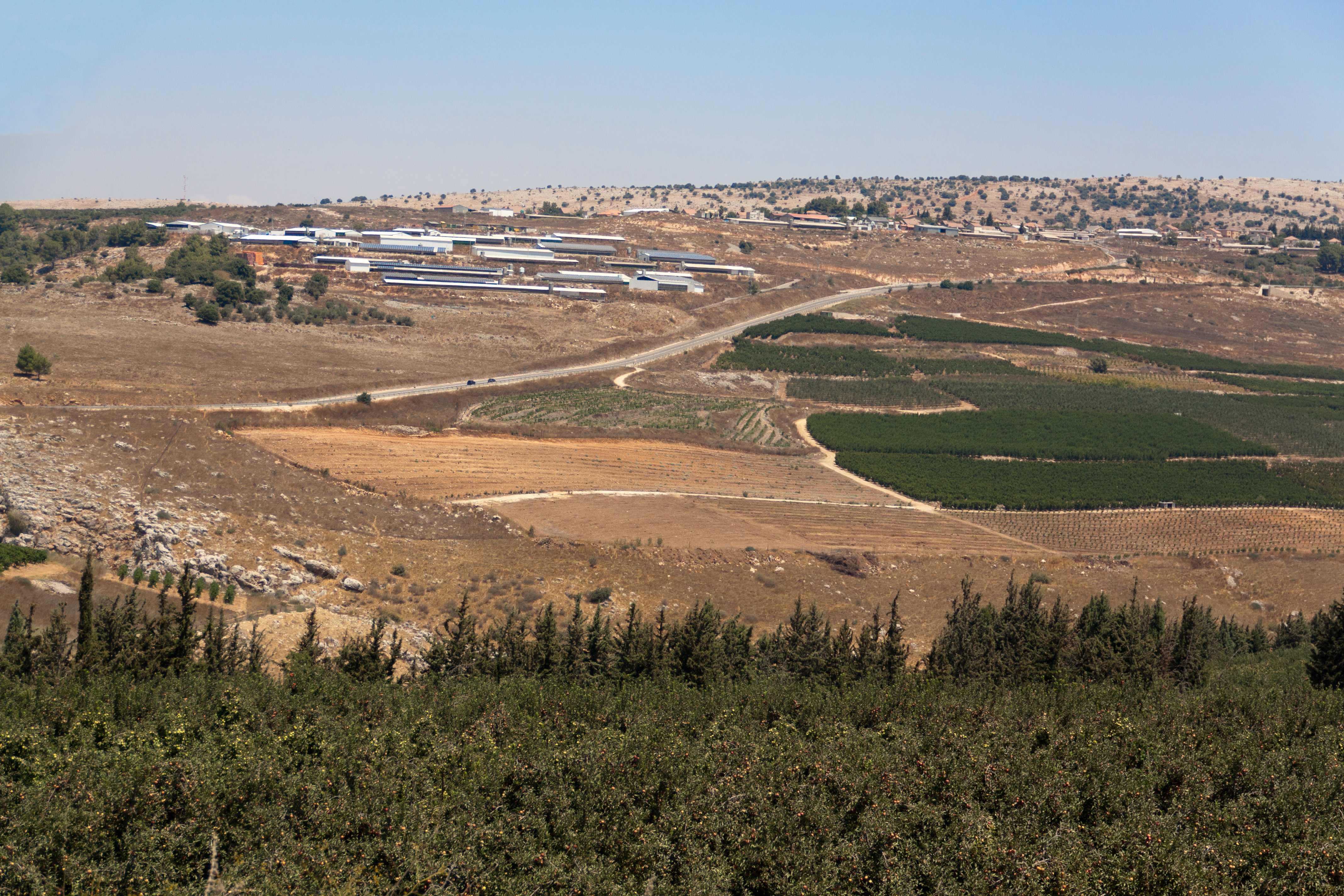 Avivim